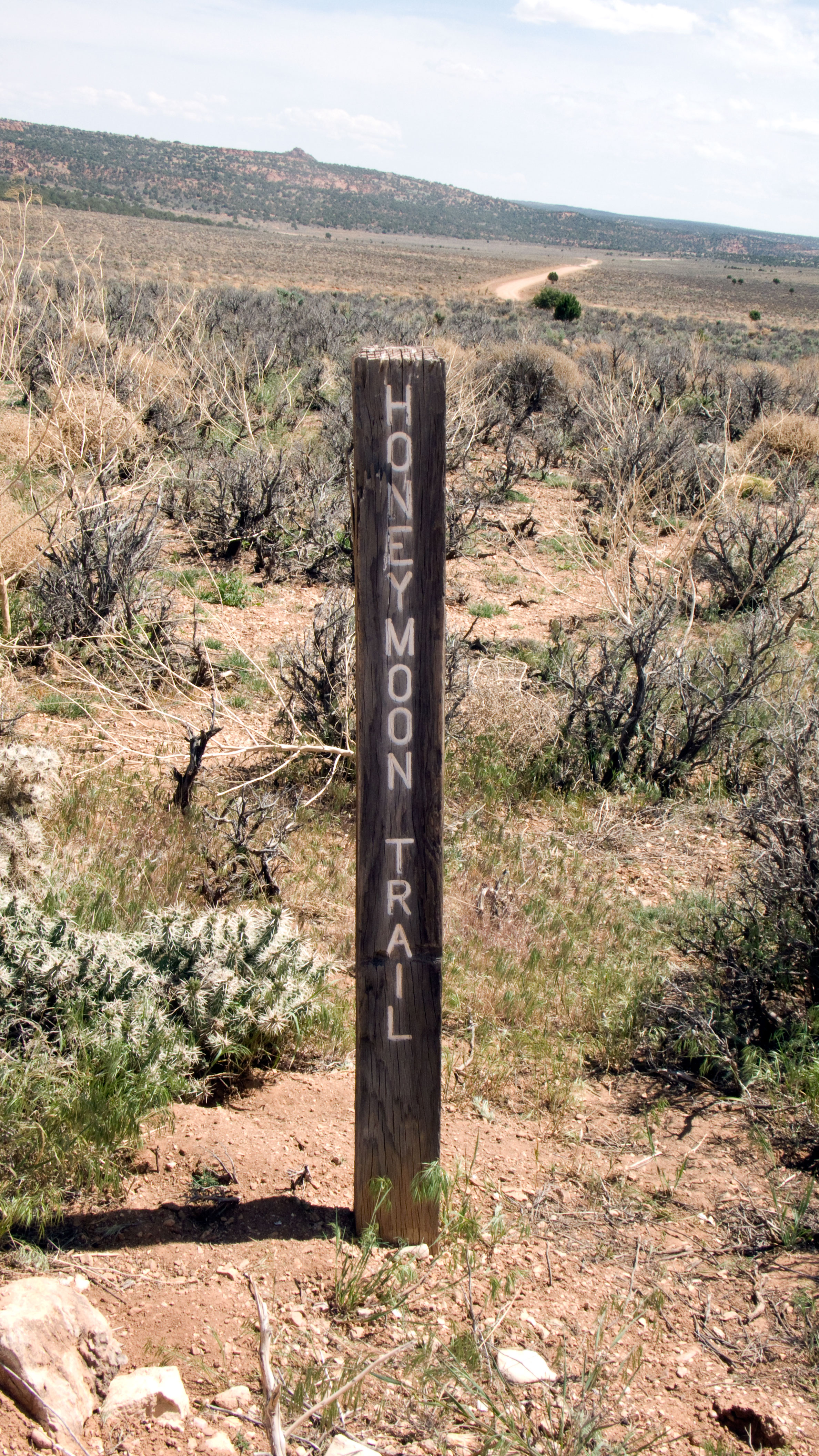 House Rock Valley Road was also called Honeymoon Trail — located in House Rock Valley, northern Arizona. It was used by Mormon couples from Arizona wishing to get married in the St. George Utah Temple, before the Mesa Arizona Temple was completed in 1927.